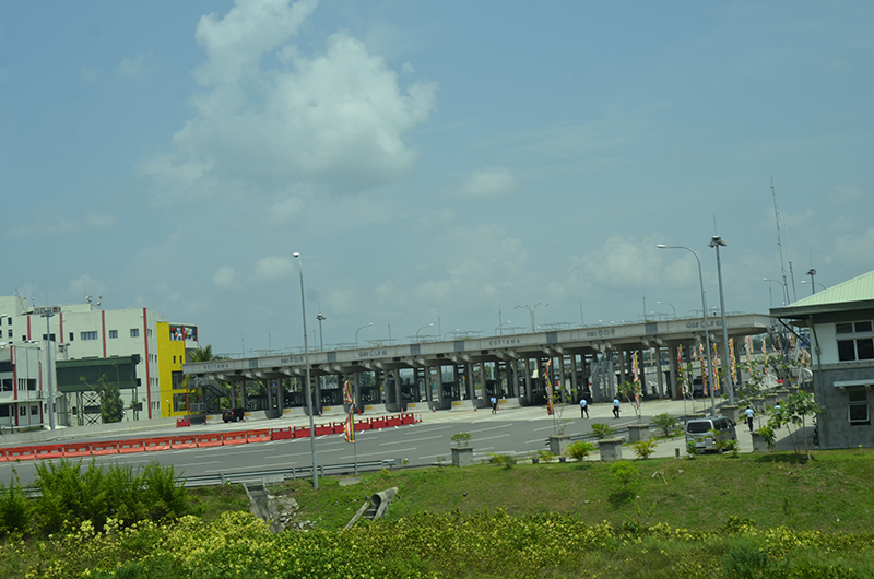 The Southern Expressway, also known as the Southern Lanka Distributor (Sinhala: දක්ෂිණ ලංකා අධිවේගි මාර්ගය, Tamil: தென்னிலங்கை அதிவேக நெடுஞ்சாலை) is Sri Lanka's first E Class highway.